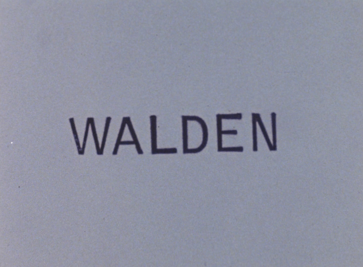 An intertitle from Jonas Mekas's Walden